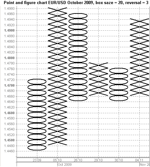 Point&figure chart EUR/USD October 2009, box saze = 20 reversal = 3